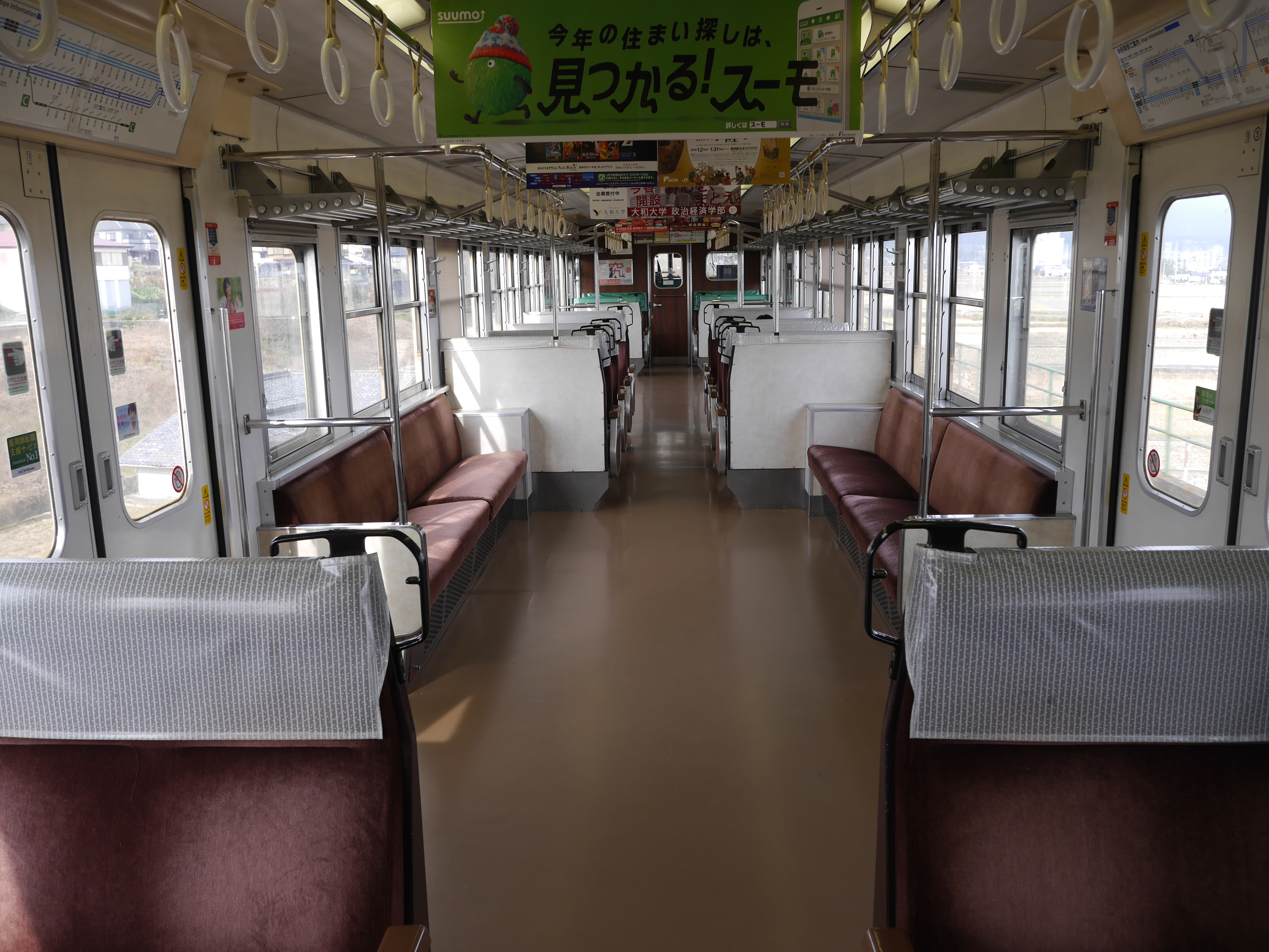 Inside JR West KUHA 117-306 driving trailer.